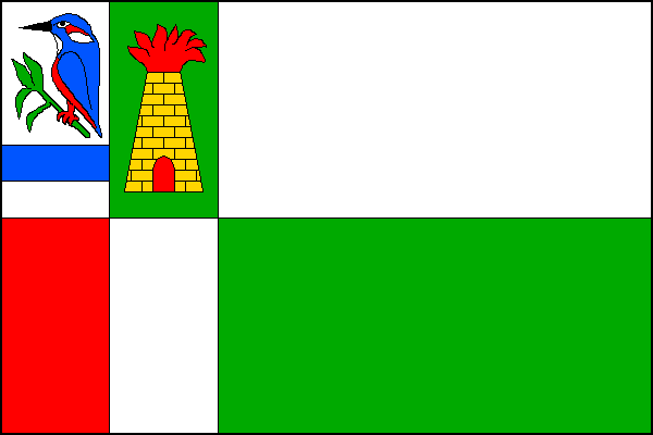 Municipal flag of Hýskov village, Beroun District, Czech Republic.